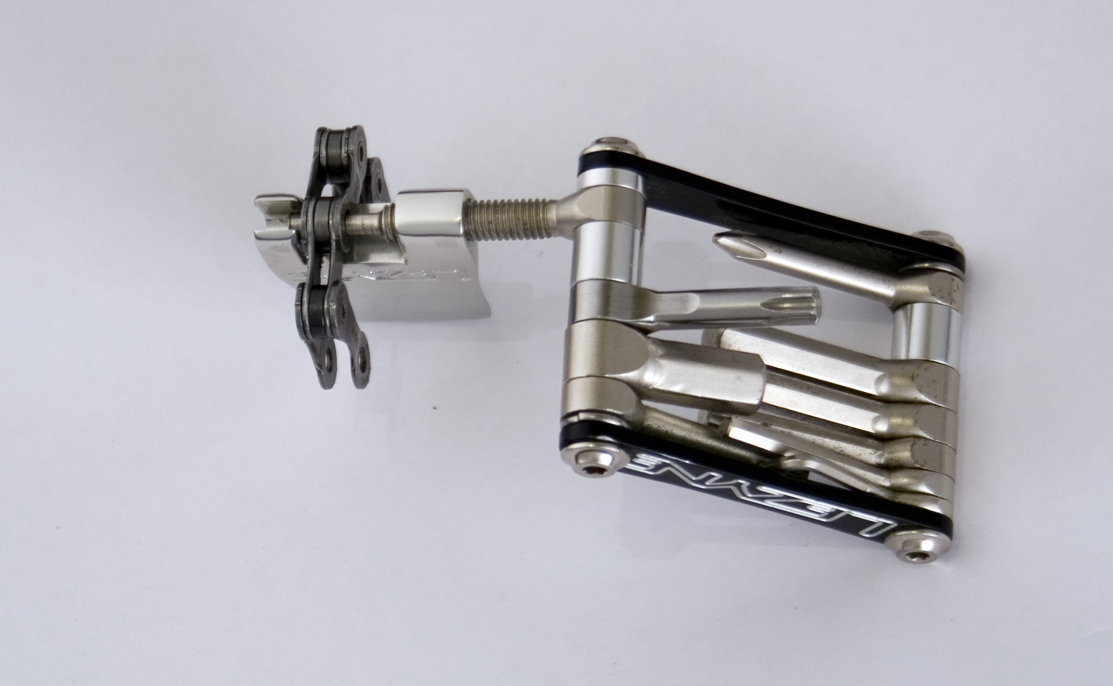 Chain tool